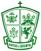 Bishop Ryan Catholic Secondary School Coat of Arms